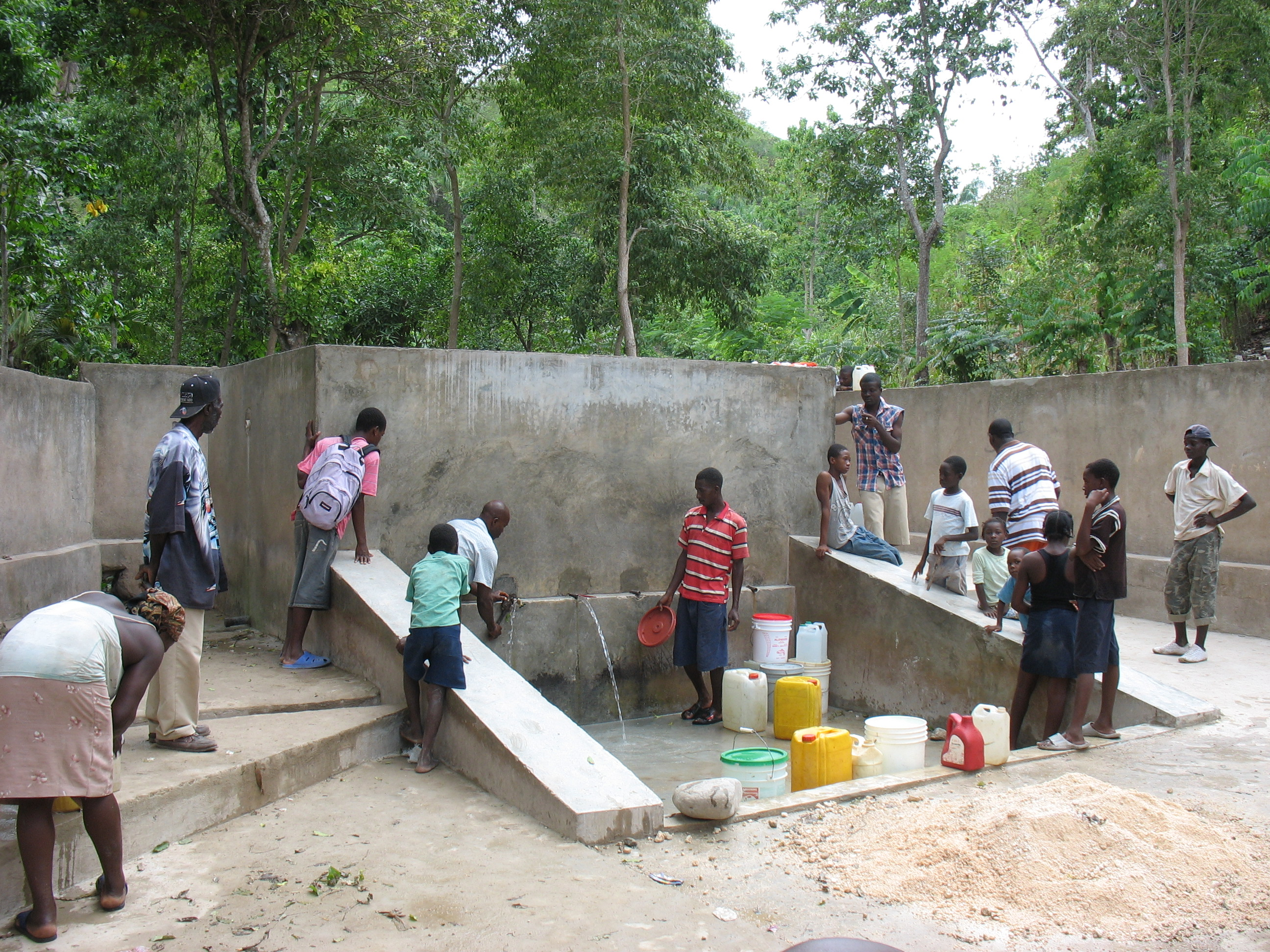 Haiti, rehabilitation of a source